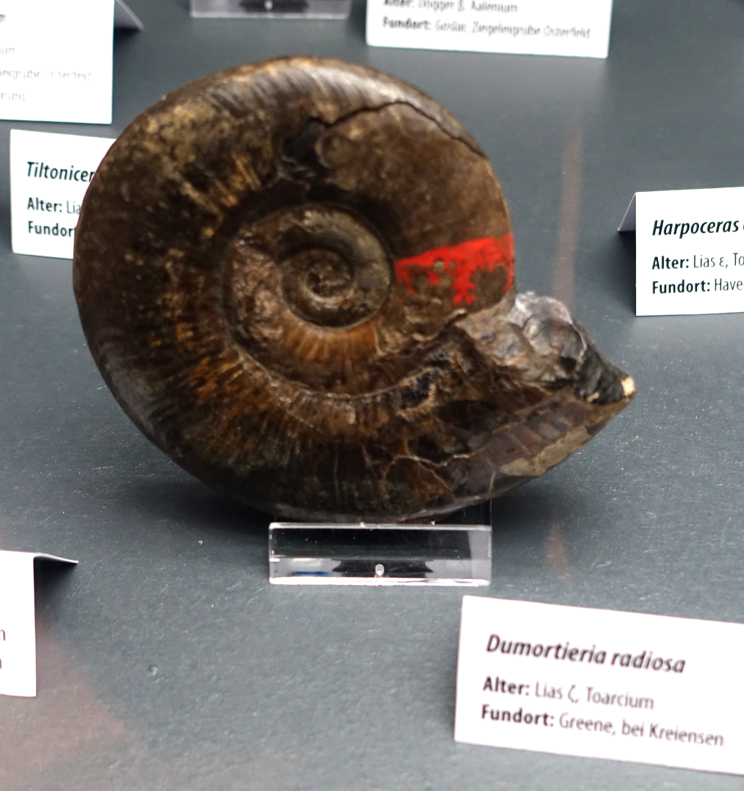 Exhibit in the Naturhistorisches Museum, Braunschweig, Germany.